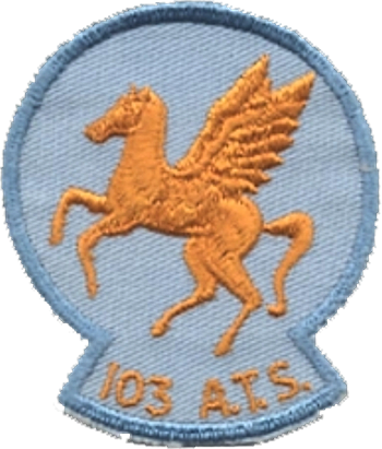 03d Air Transport Squadron - Emblem